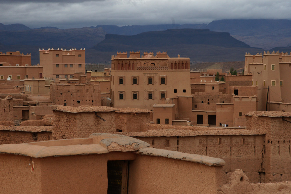 View of old Kasbahs in Nkob Village south Morocco